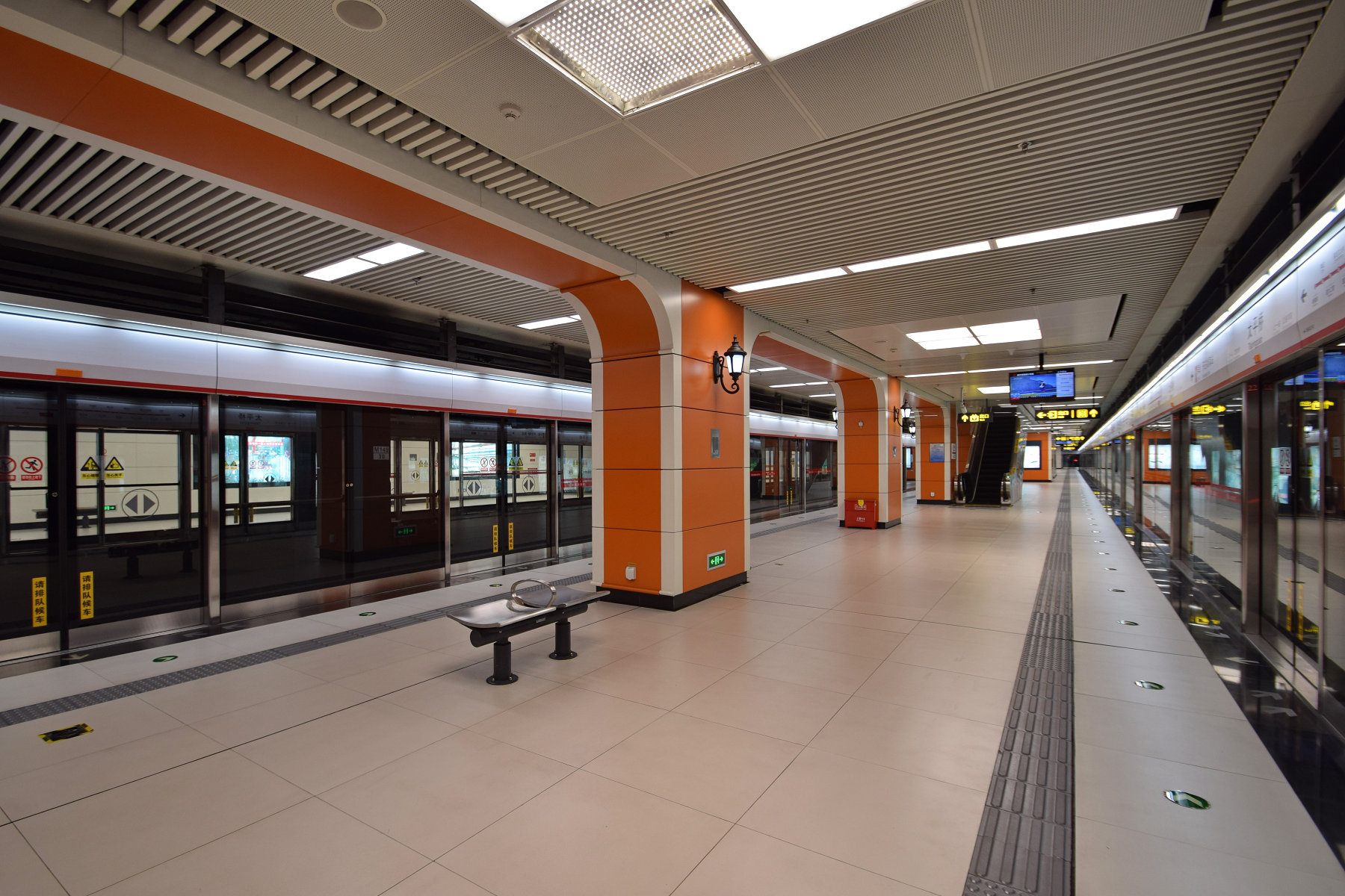 Platform of Taipingqiao Station, Harbin Metro Line 1